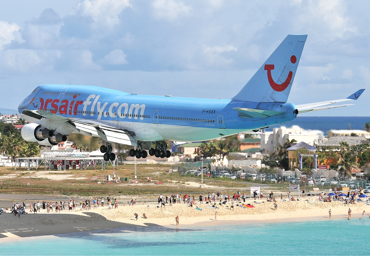 Corsair Boeing 747-422